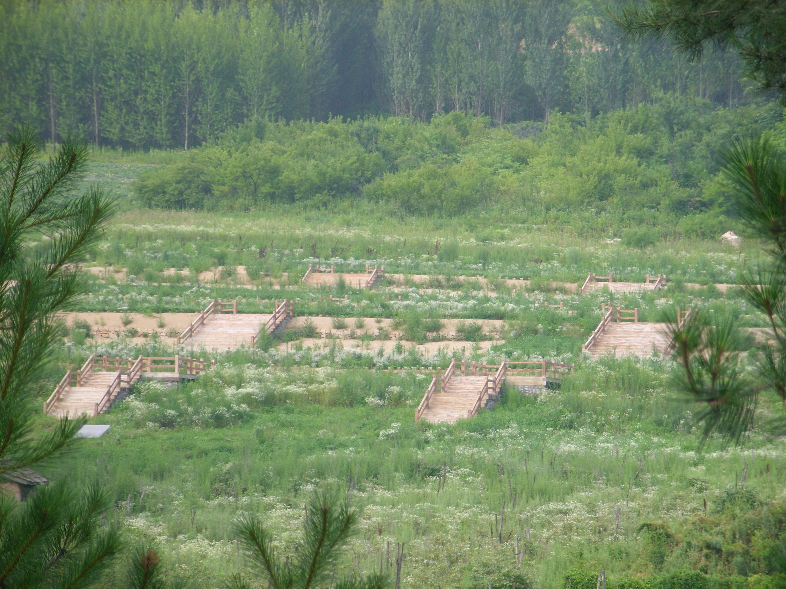 Hwando Mountain Fortress' old palace's site